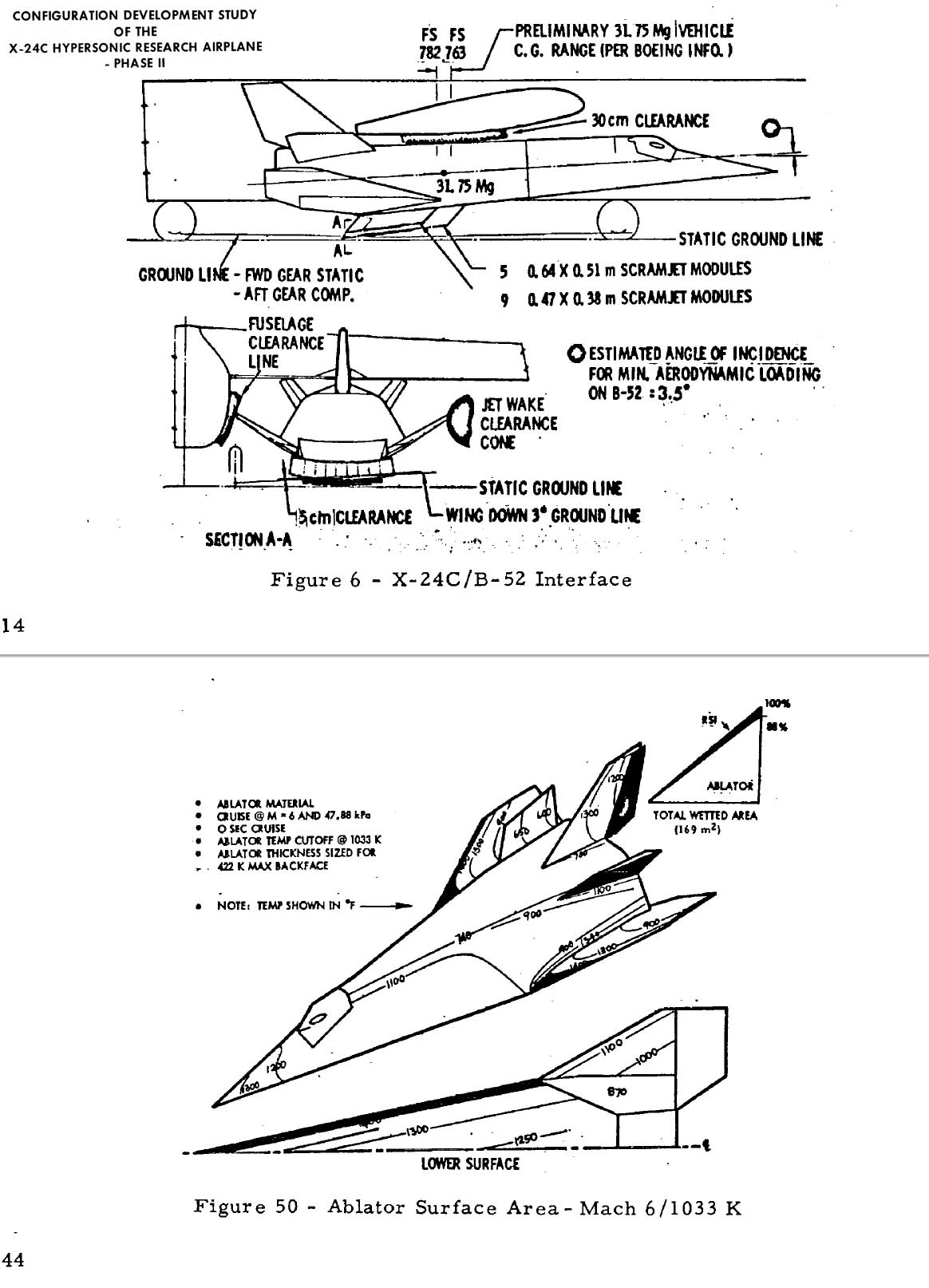 X-24C configuration images circa January 1977. From CONFIGURATION DEVELOPMENT STUDY OF THE X-24C HYPERSONIC RESEARCH AIRPLANE - PHASE II. Figures 6 and 50 from Pages 14 and 44 respectively.